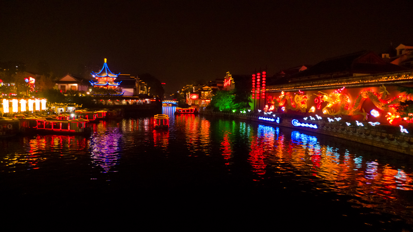 Night view of Qinhuai River, Fuzi Miao, Nanjing